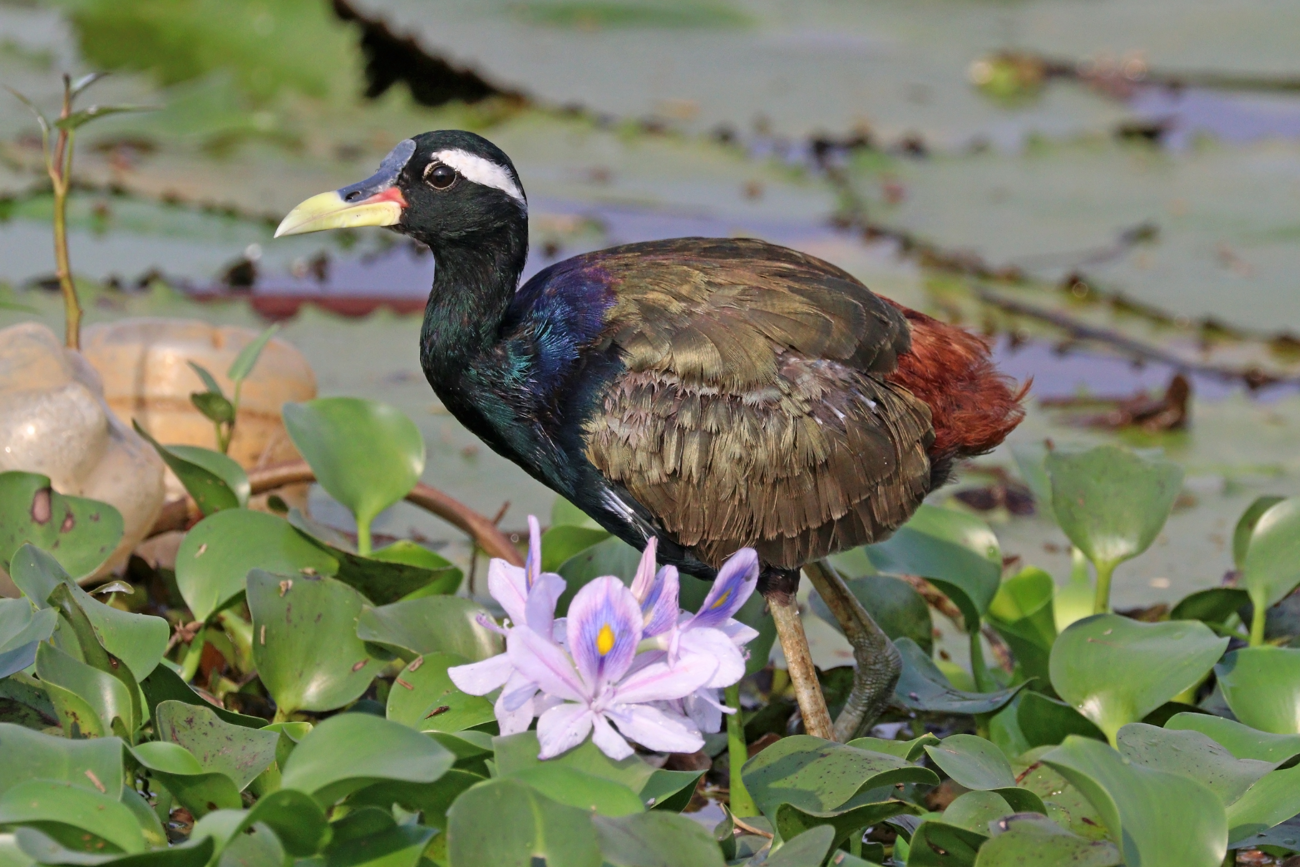 Bronze-winged jacana (Metopidius indicus), Vembanad Lake, Kerala